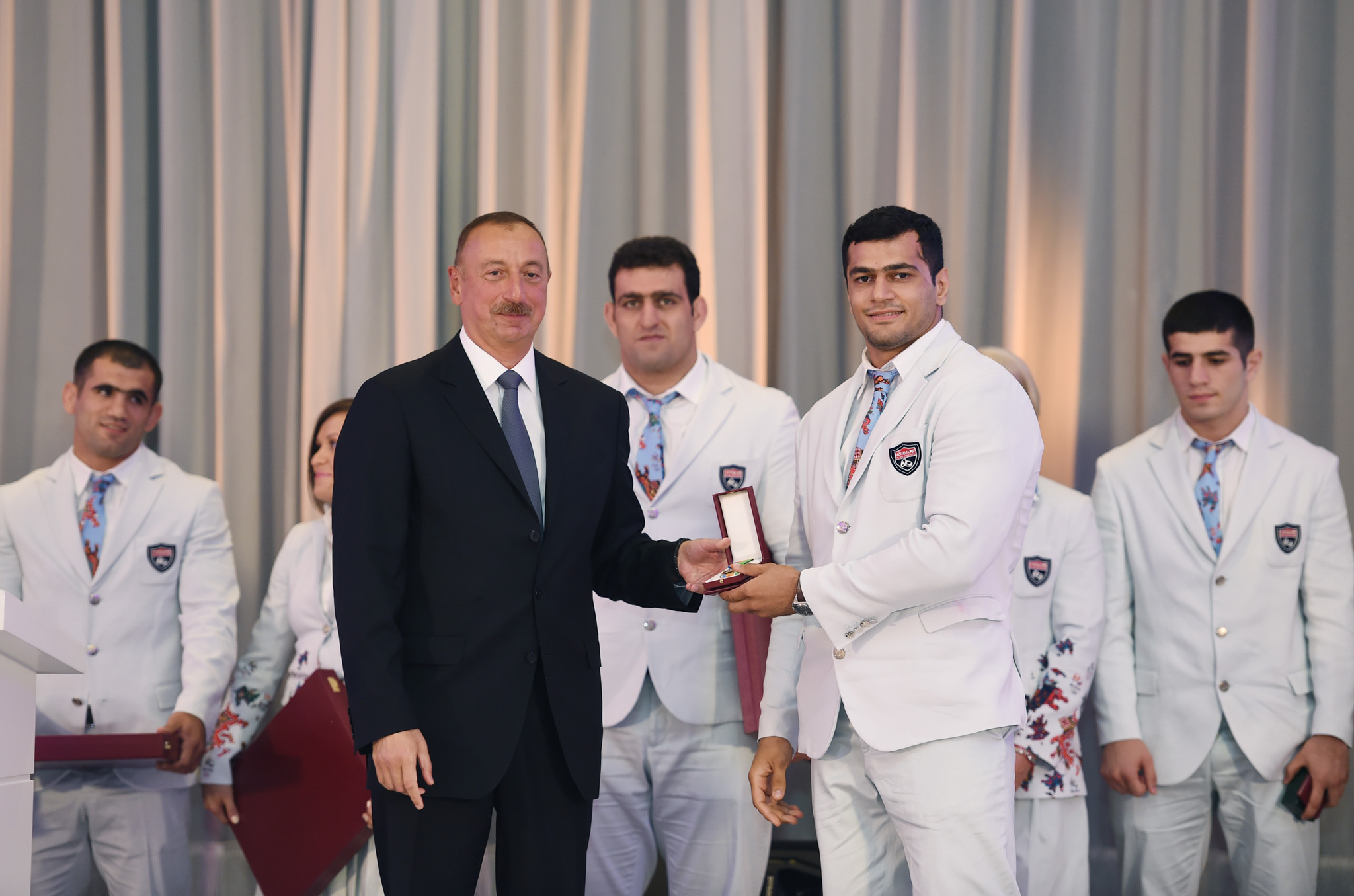 Ilham Aliyev met with athletes who competed in 31st Summer Olympic Games (Ilham Aliyev and Elmar Gasimov)